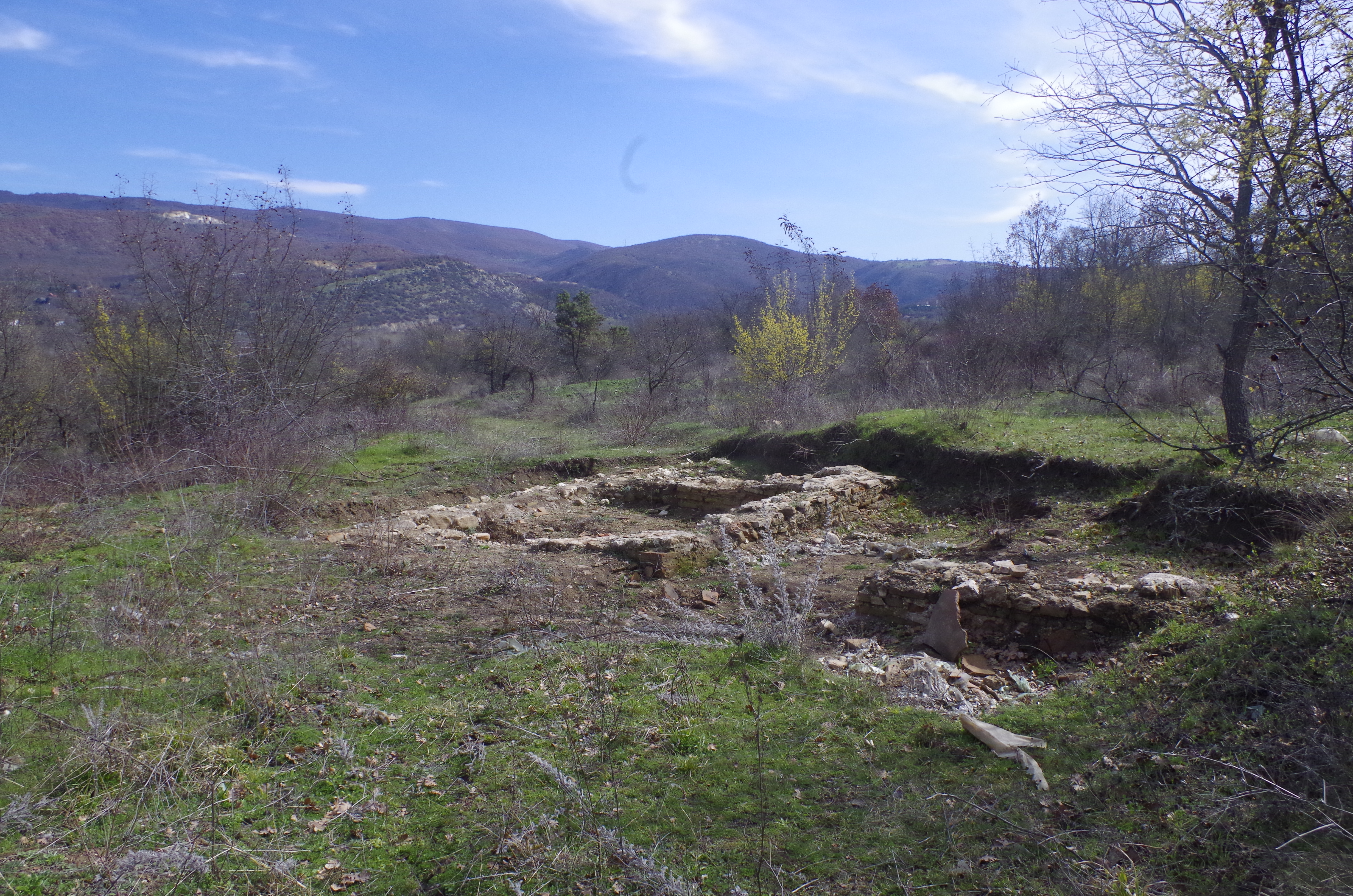 Ruins of the ancient Roman and Byzantine hamlet of Baderiana, near the village of Bader, Macedonia